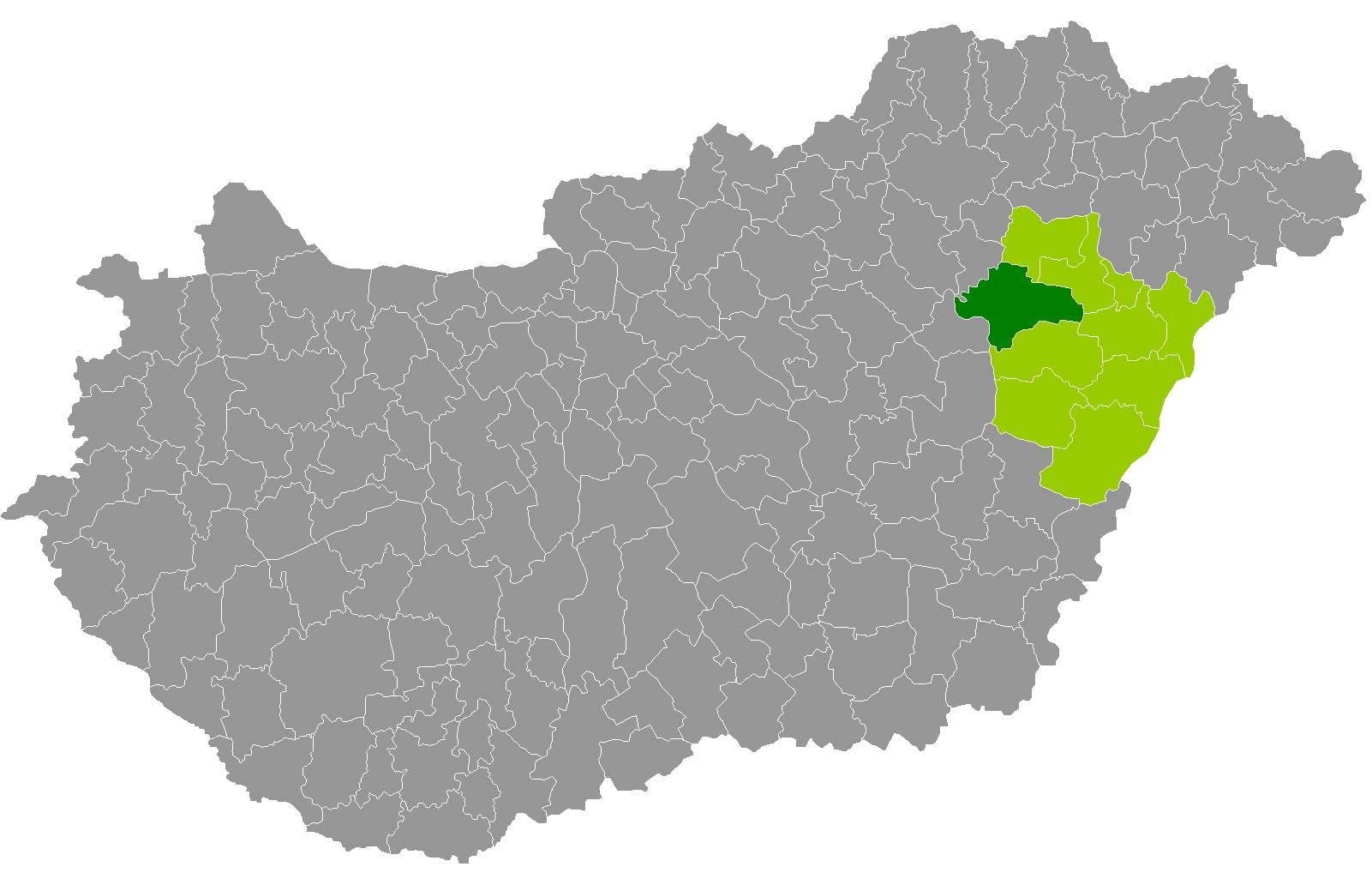 Location of Balmazújváros District, Hajdú-Bihar, Hungary